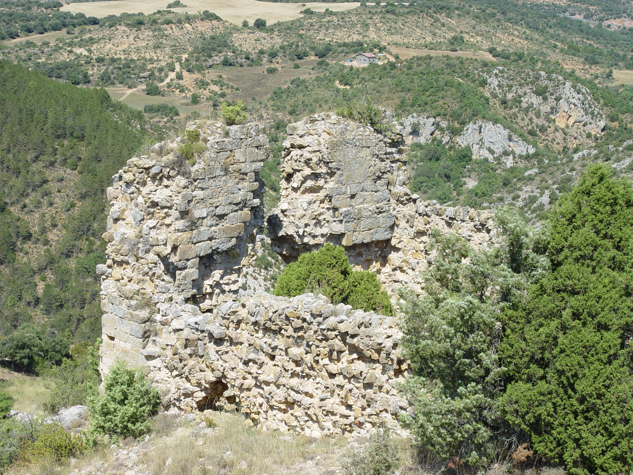 Església de Sant Just i Sant Pastor de Falç